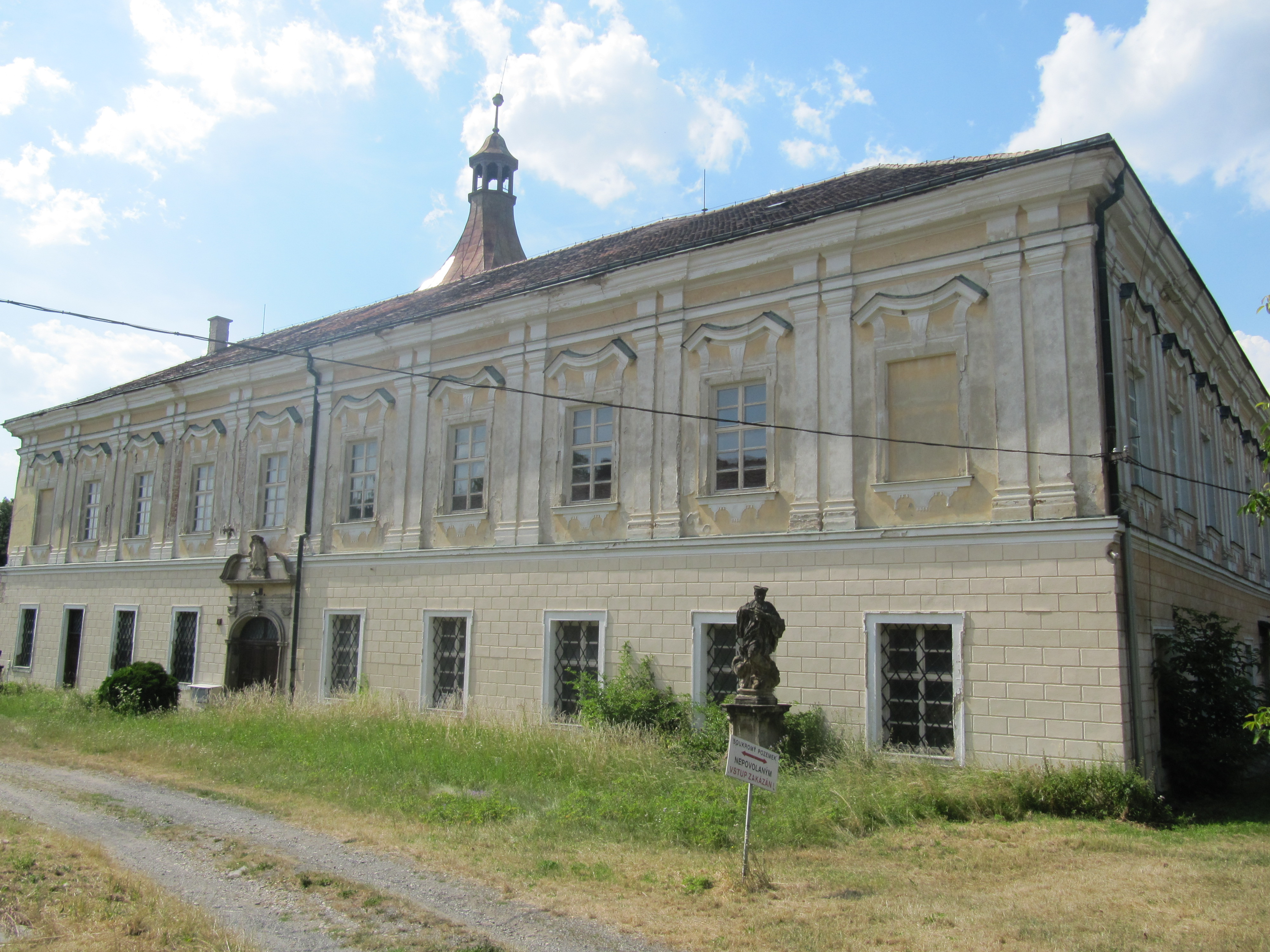 Přestavlky, Přerov District, Czech Republic. Chateau with park and statues.